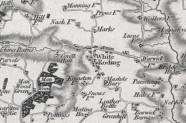 1805 Ordnance Survey map of White Roding in Uttlesford, Essex, England